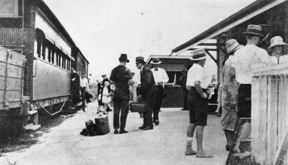 Passenger train stopping at the railway station in Tully, 1930